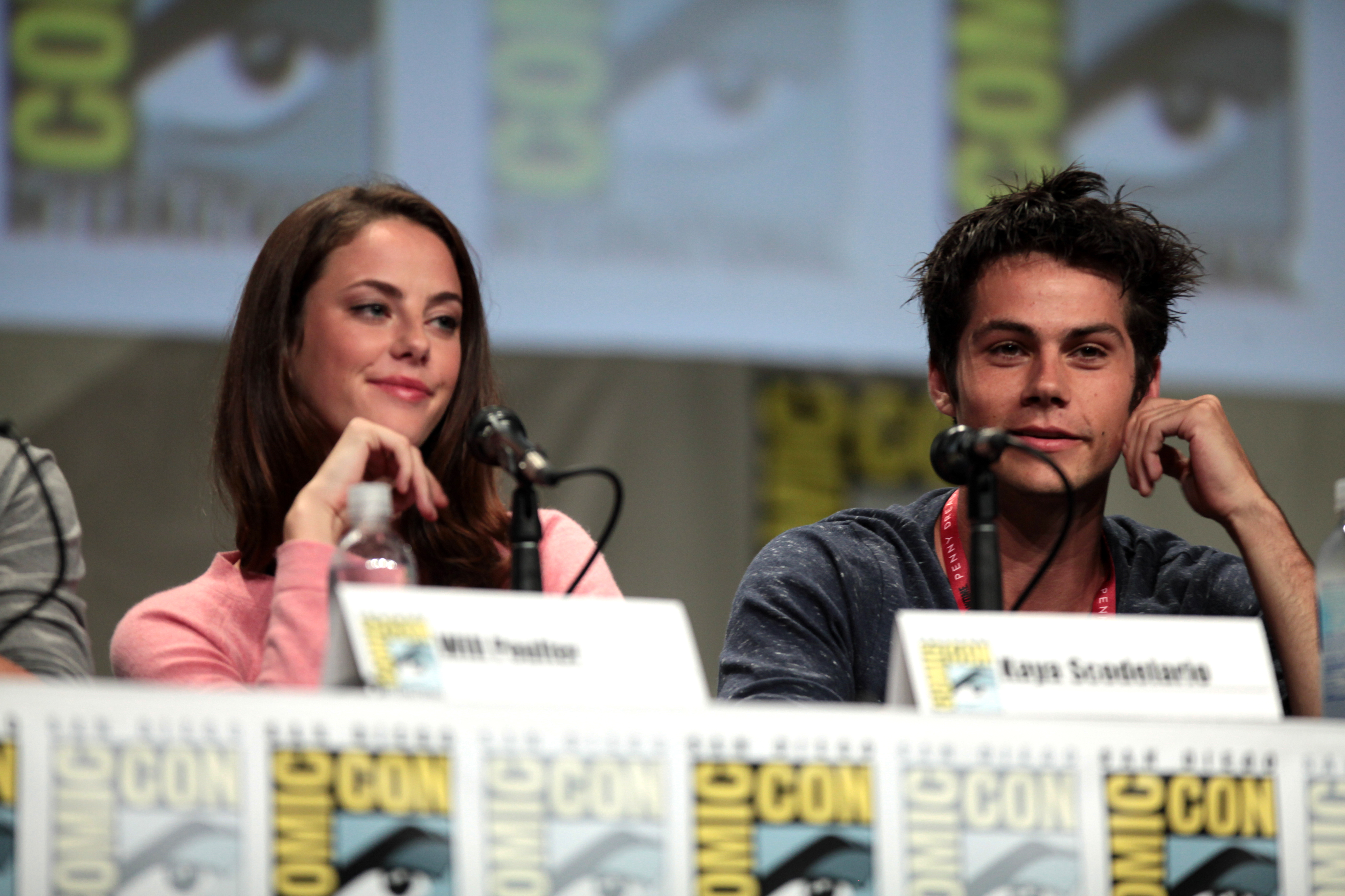 Kaya Scodelario and Dylan O'Brien speaking at the 2014 San Diego Comic Con International, for "The Maze Runner", at the San Diego Convention Center in San Diego, California.